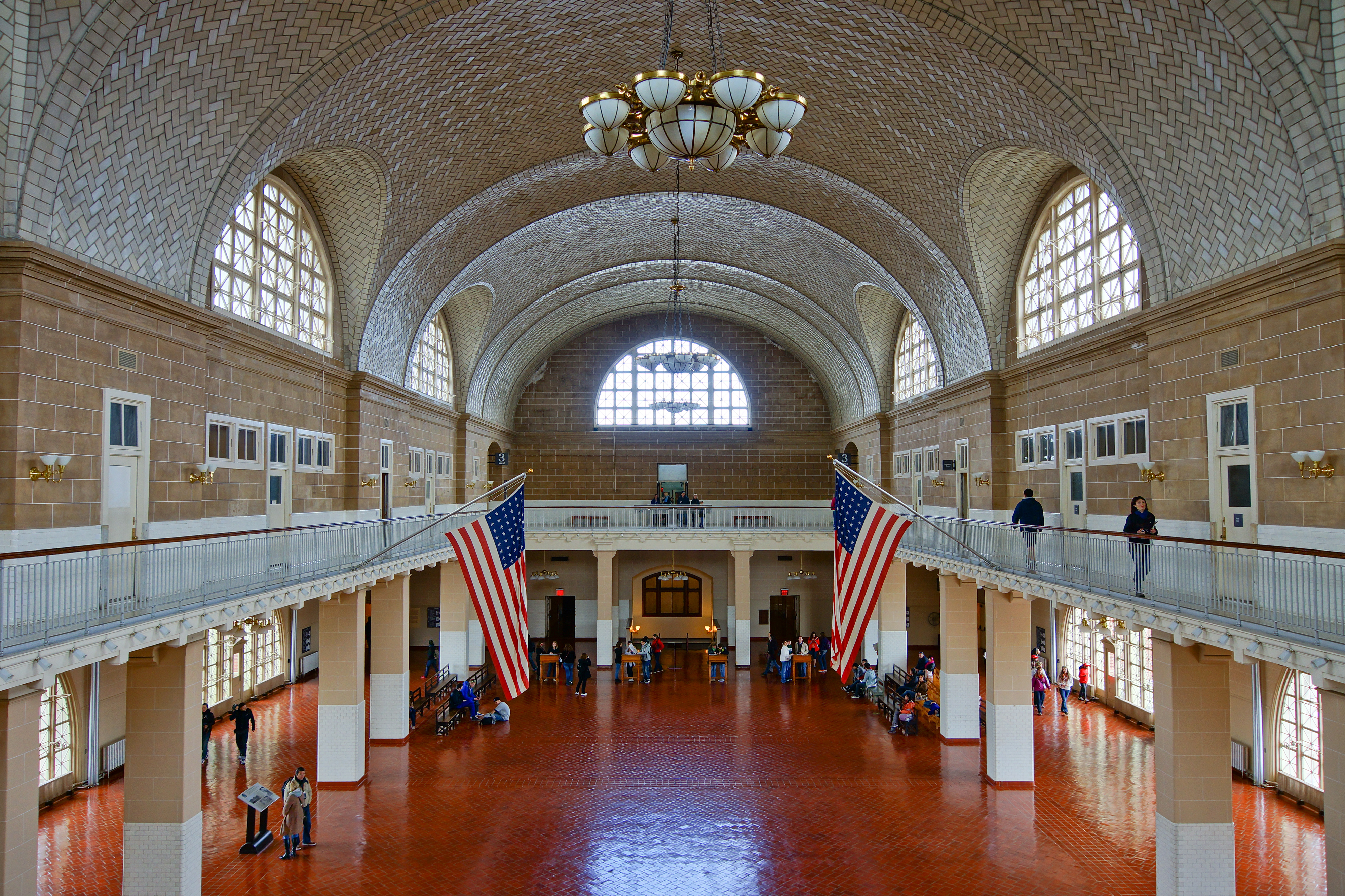 Ellis island Immigration Museum hall, Guastavino tile vaulted ceiling